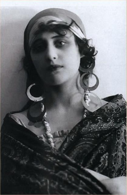 Russian first silent movie star Vera Kholodnaya (1910s).